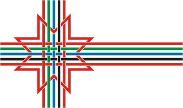 Proposed flag of Finno-Ugric peoples, designed by Polish Finno-Ugric linguist Szymon Pawlas.